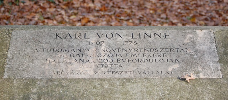 Carl von Linné commemorative plaque in Budapest District X, People's Park.